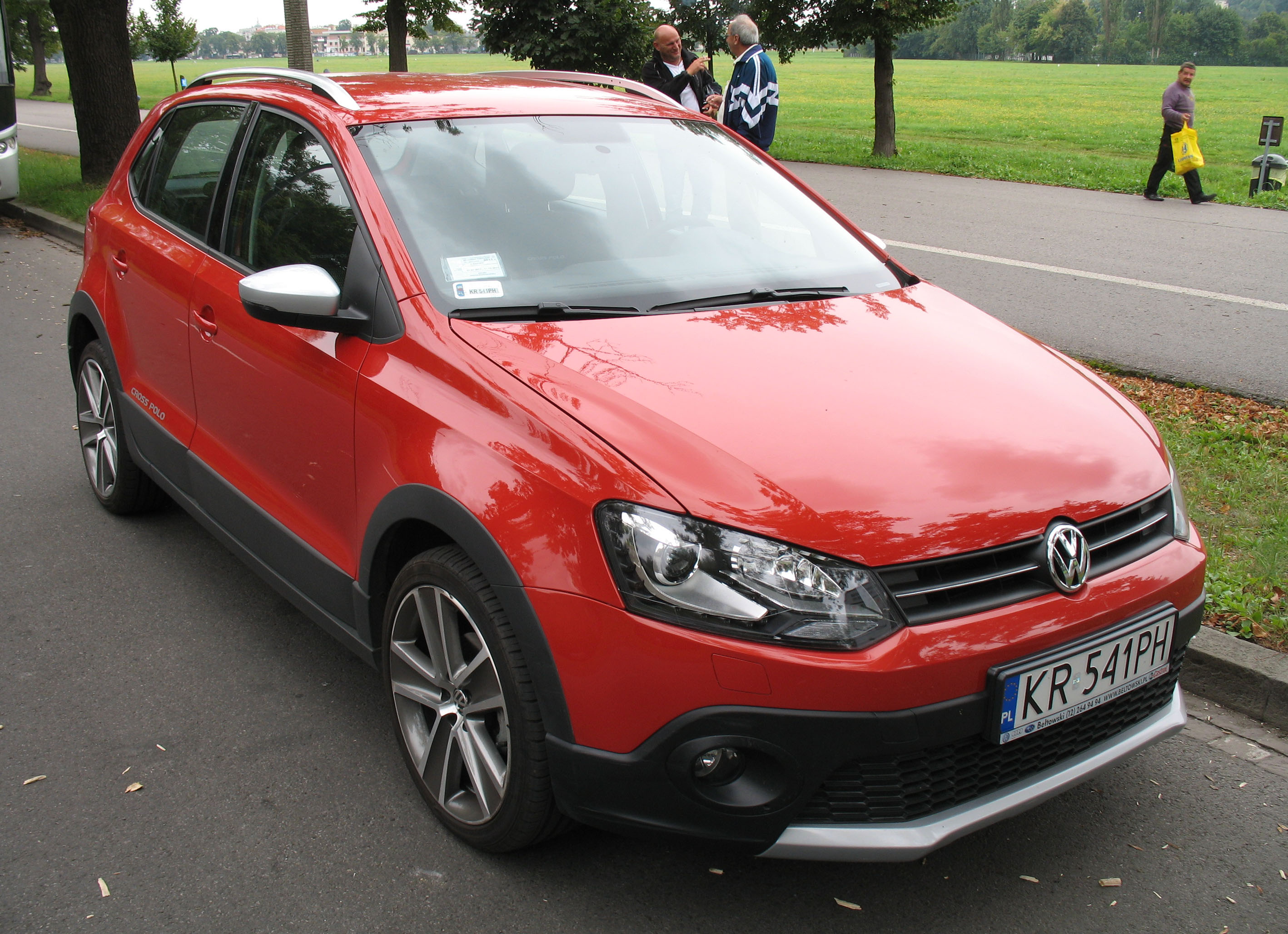 Red Volkswagen CrossPolo II car in Kraków, Poland.